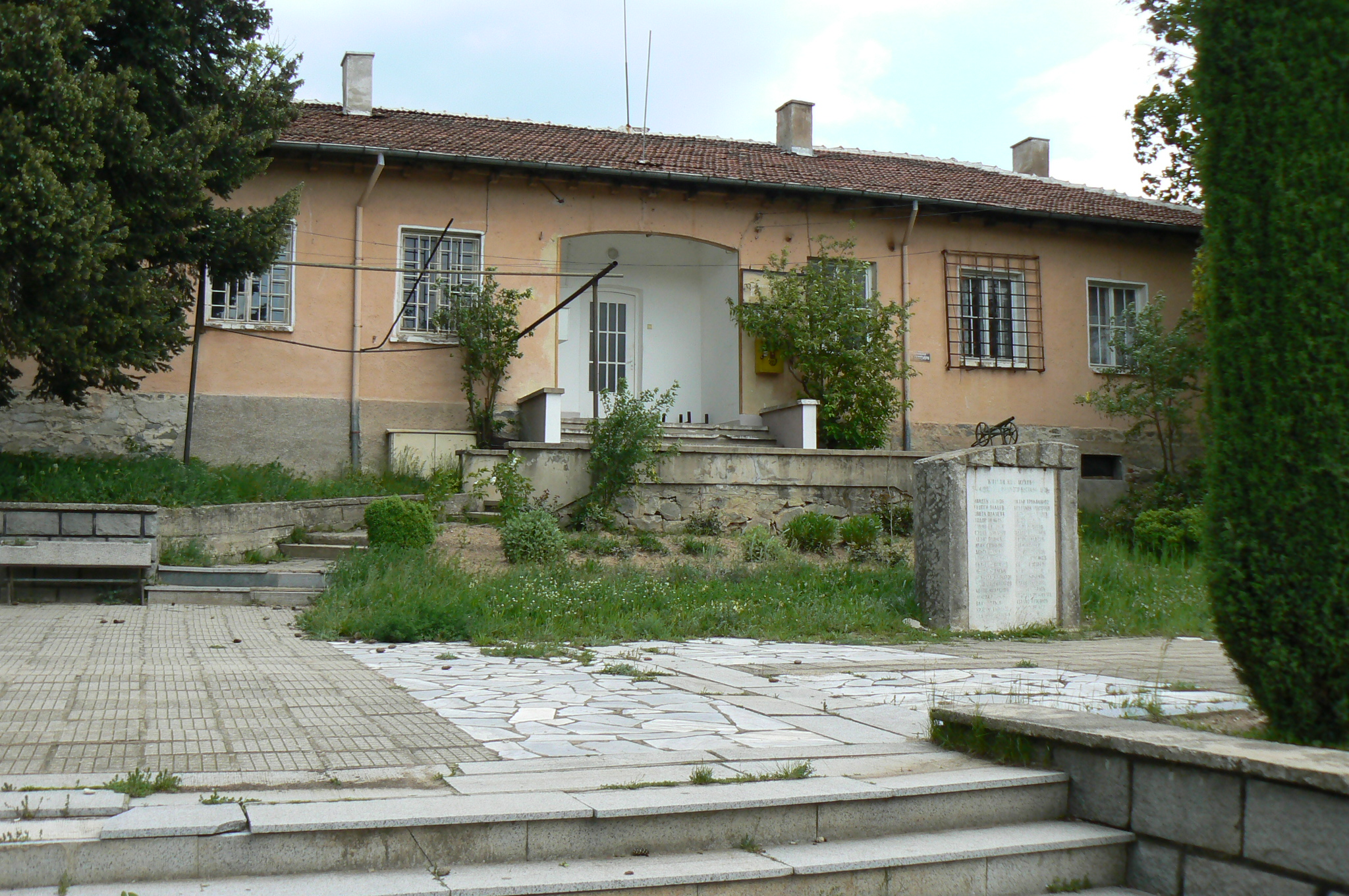 The mayors office and the war memorial in village Muhovo, Bulgaria